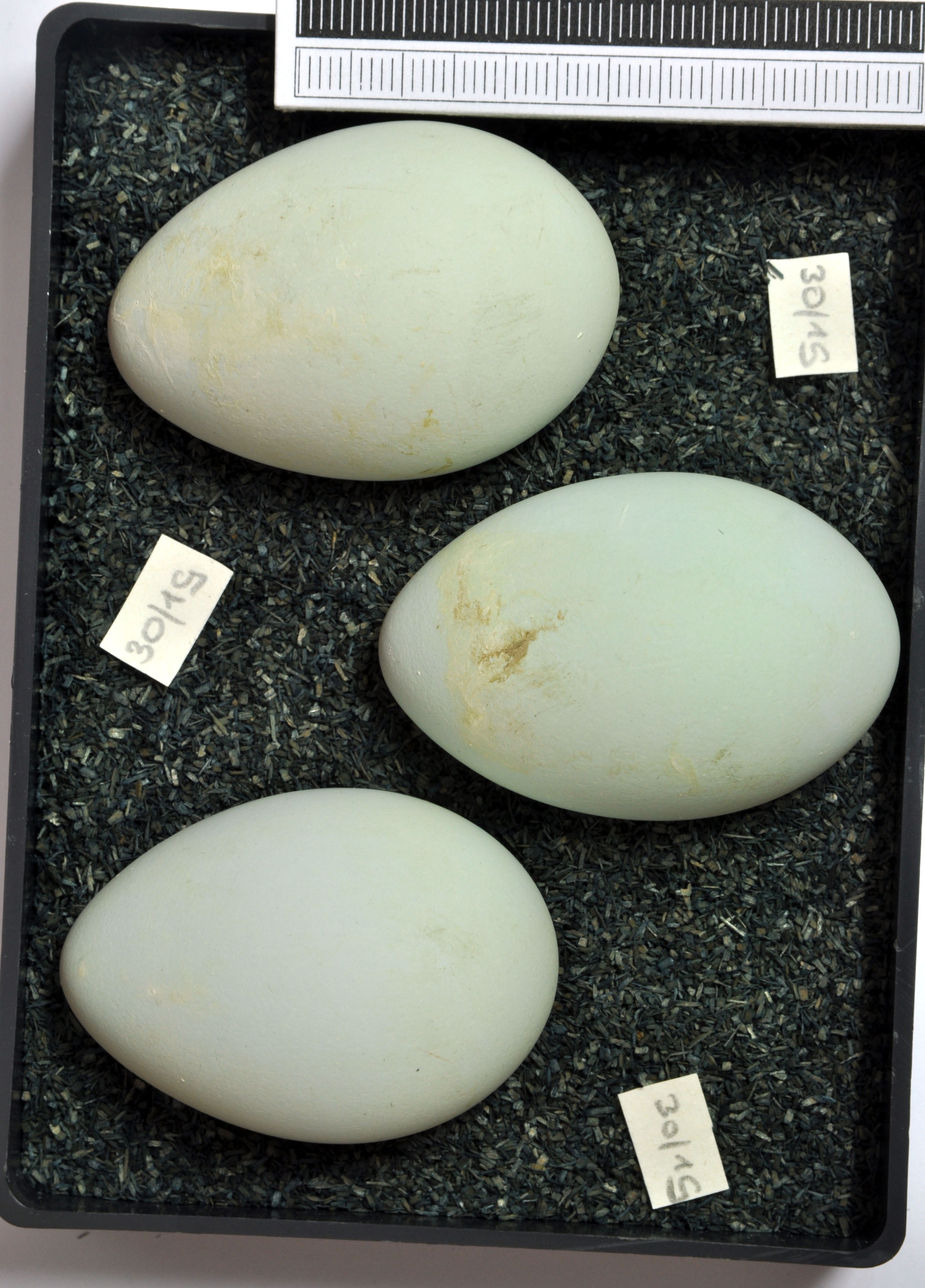 Black-crowned Night-Heron Nycticorax nycticorax, egg, Coll. Museum Wiesbaden, Origin: Pays de Dombes, France, 22.04.1974, leg. W. Abelmann